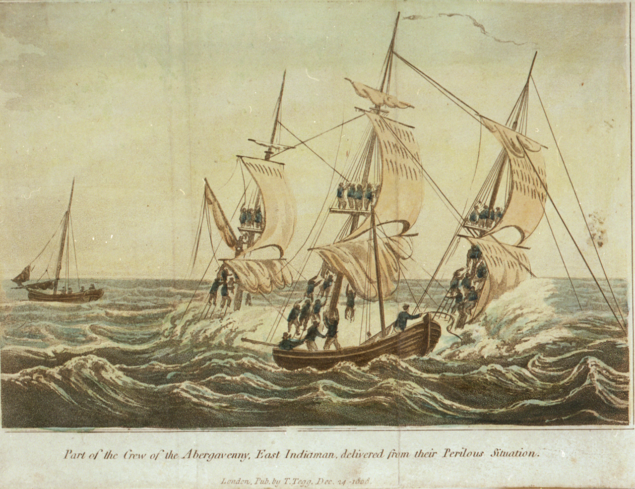 Title: Part of the Crew of the Abergavenny East Indiaman, delivered from their Perilous Situation . Hand coloured acquatint, 176 mm x 234 mm